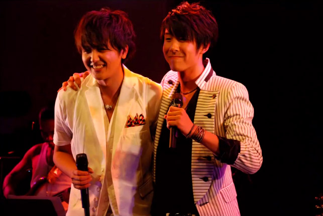 Alma Kaminiito performing during its first concert Alma Kaminiito 1st Live "Uno" in Shibuya on August 5, 2012.